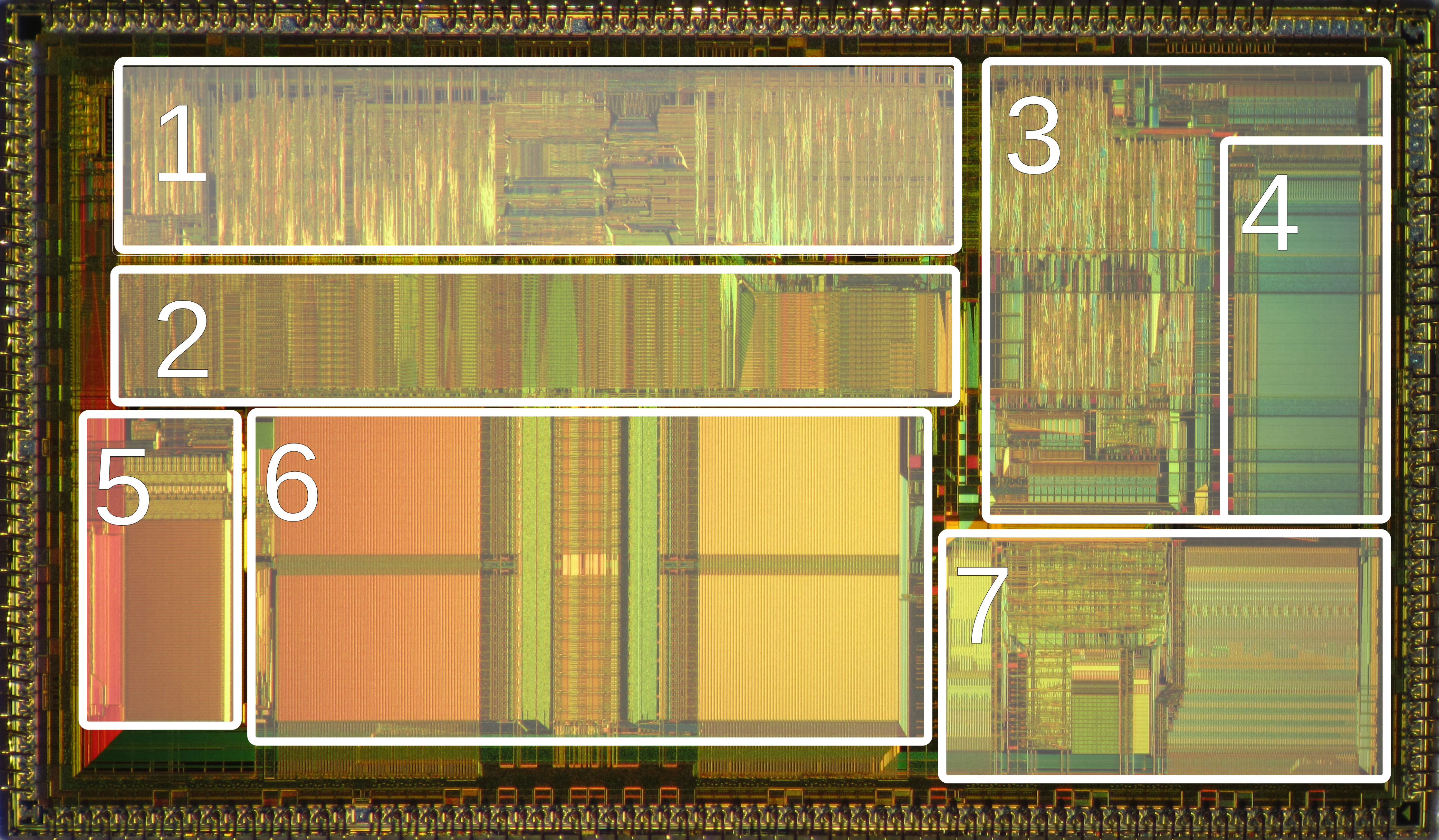 Die shot of Intel 80486 DX2-66 microprocessor (SX750) with layout overlay adopted from [1]. Control Path Data Path Instruction Decode Logic Microcode ROM Memory Interface Unified Cache FPU